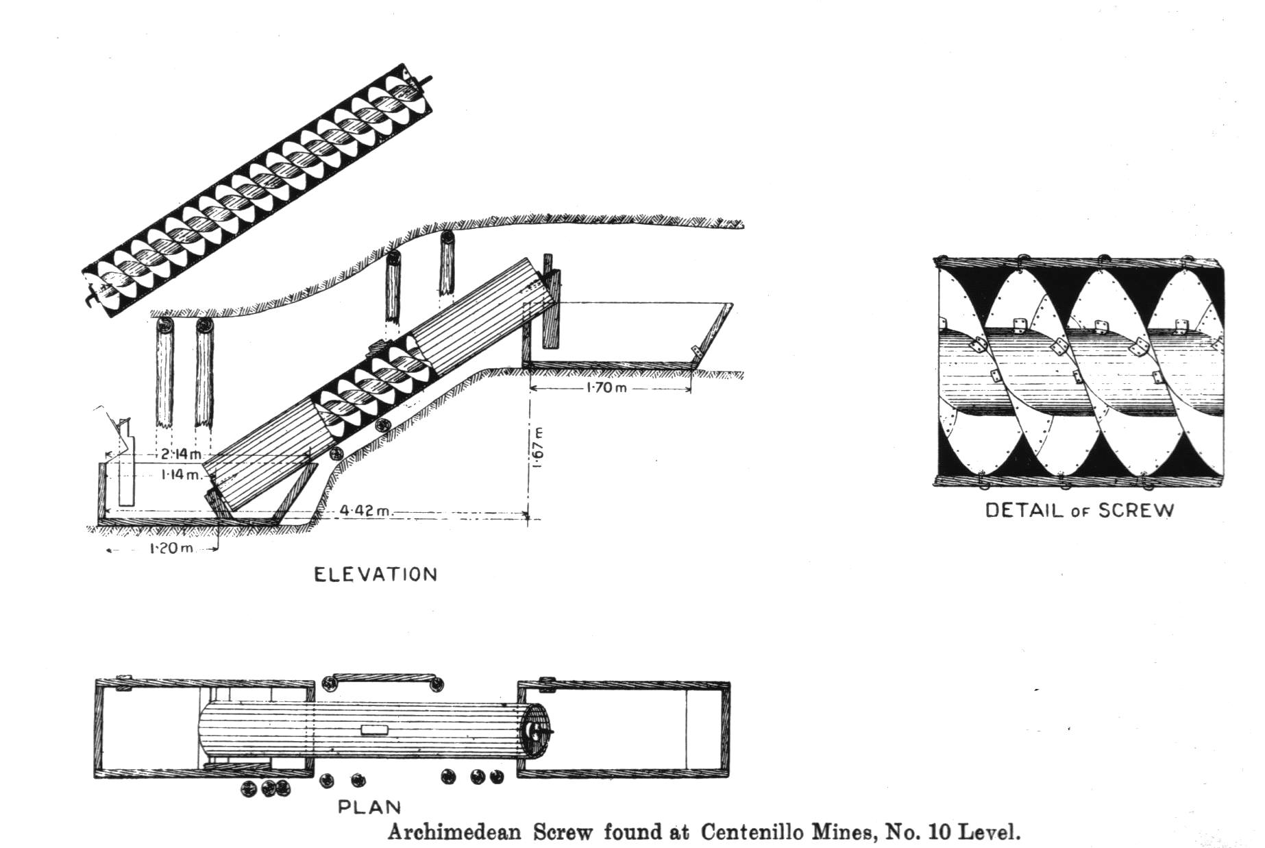 scan from own original of 1928 print